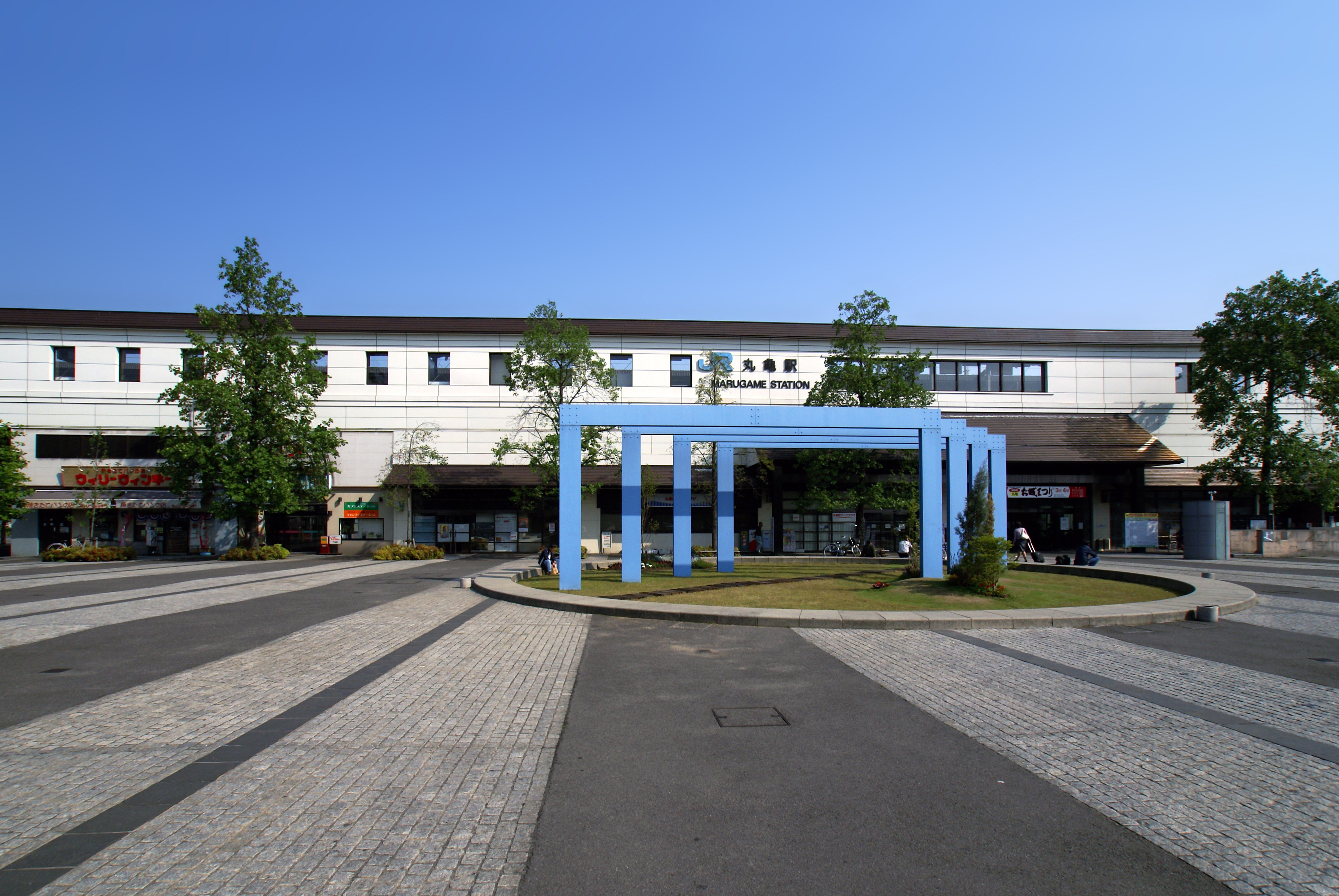 Marugame Station in Marugame, Kagawa prefecture, Japan